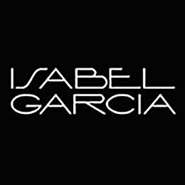 Isabel Garcia Logo